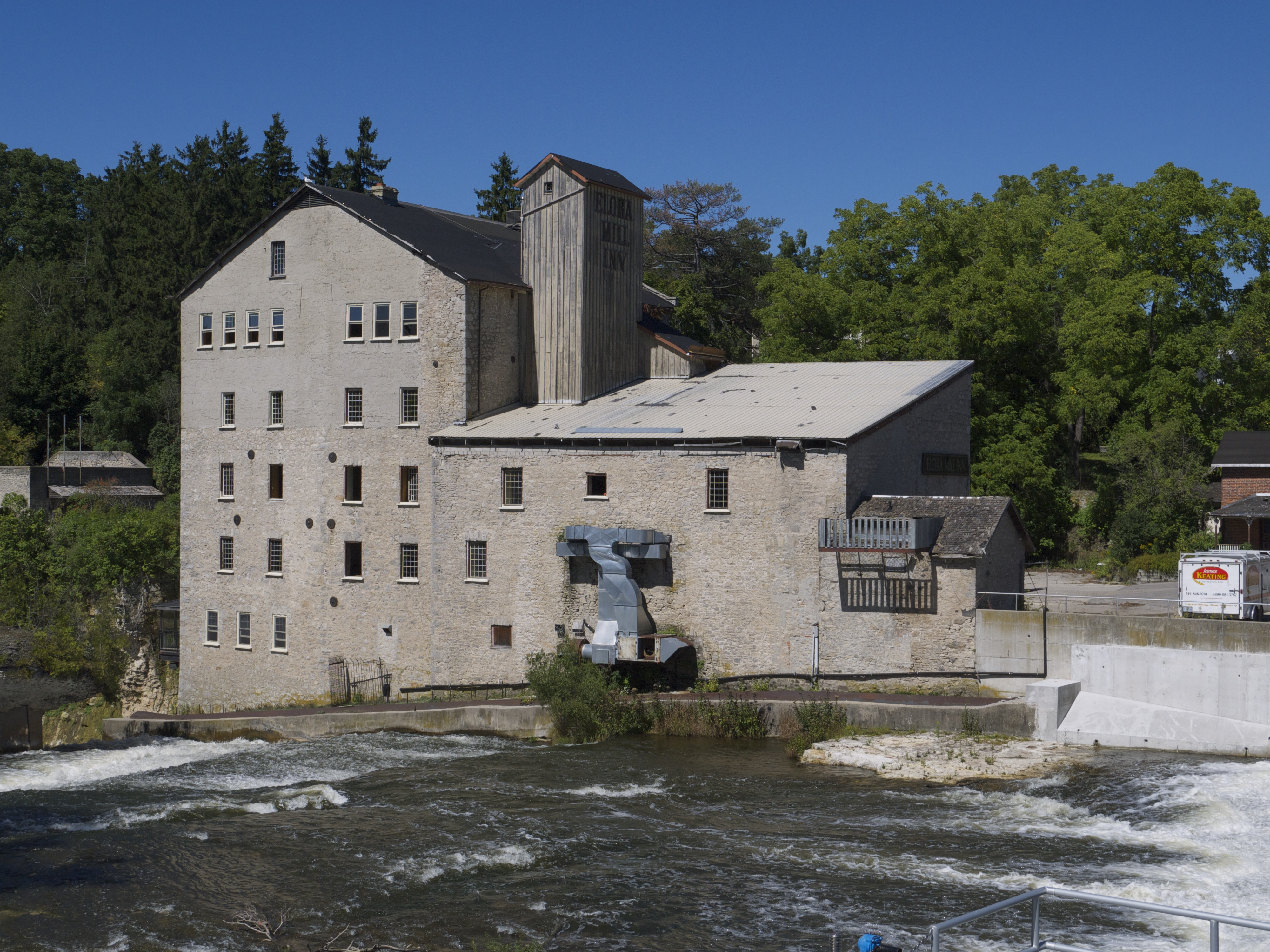 Elora Mill in Elora, Ontario.